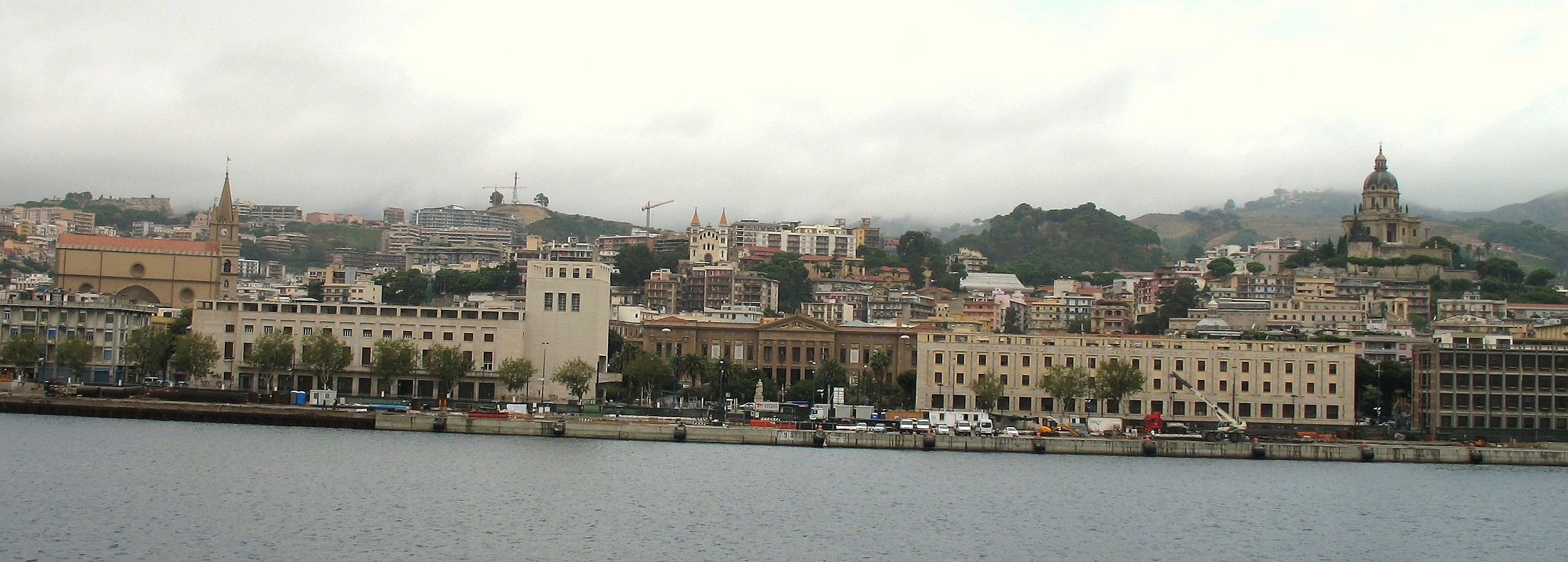 City Messina From The Ferry boat